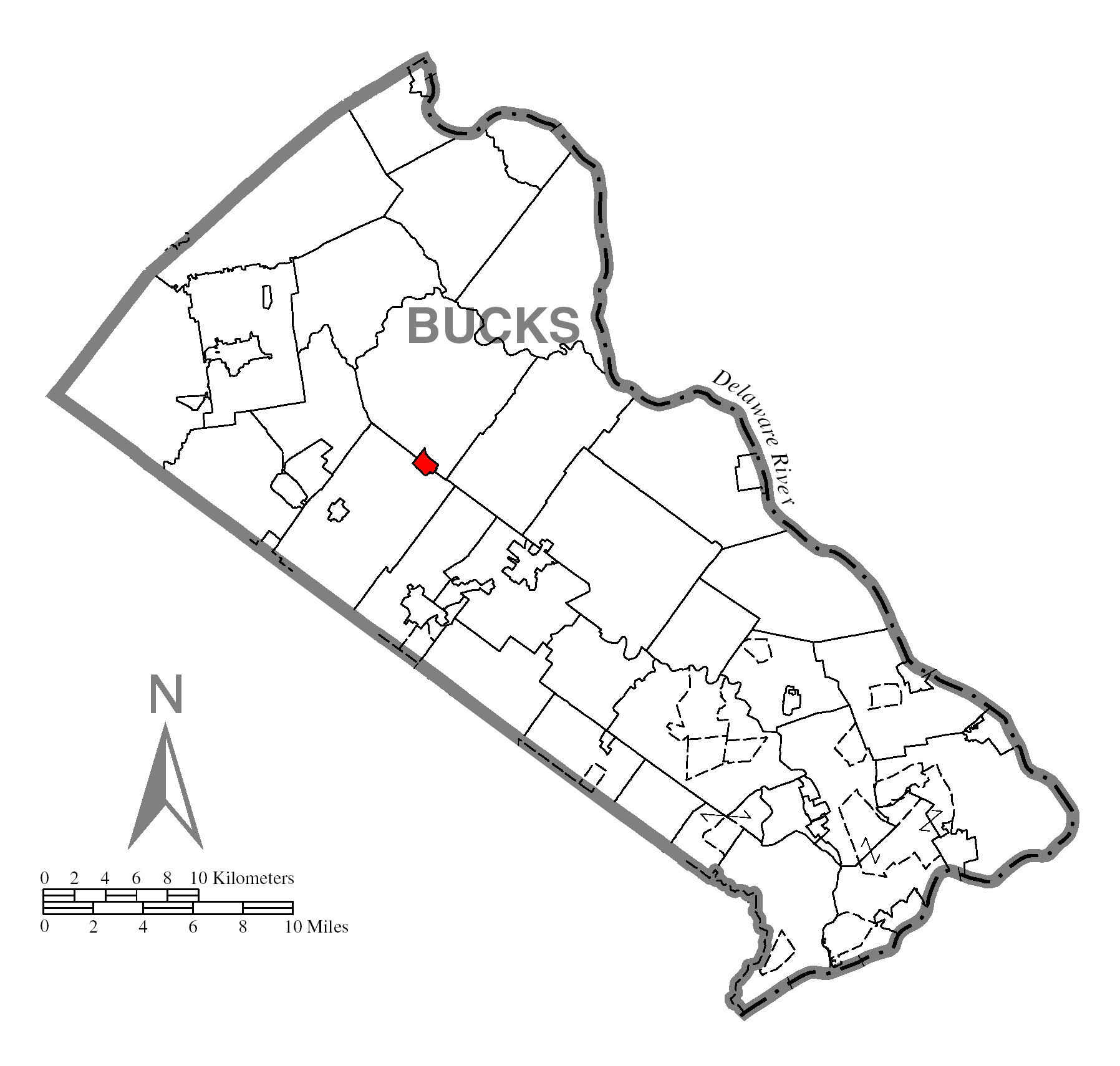 A map of Bucks County showing Dublin, Pennsylvania (alternate) highlighted on the map.